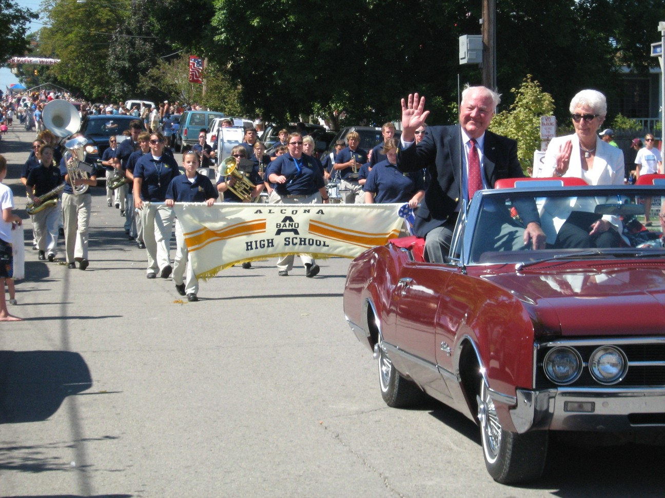 Harmony Weekend 2007, Parade, taken by MoodyGroove.